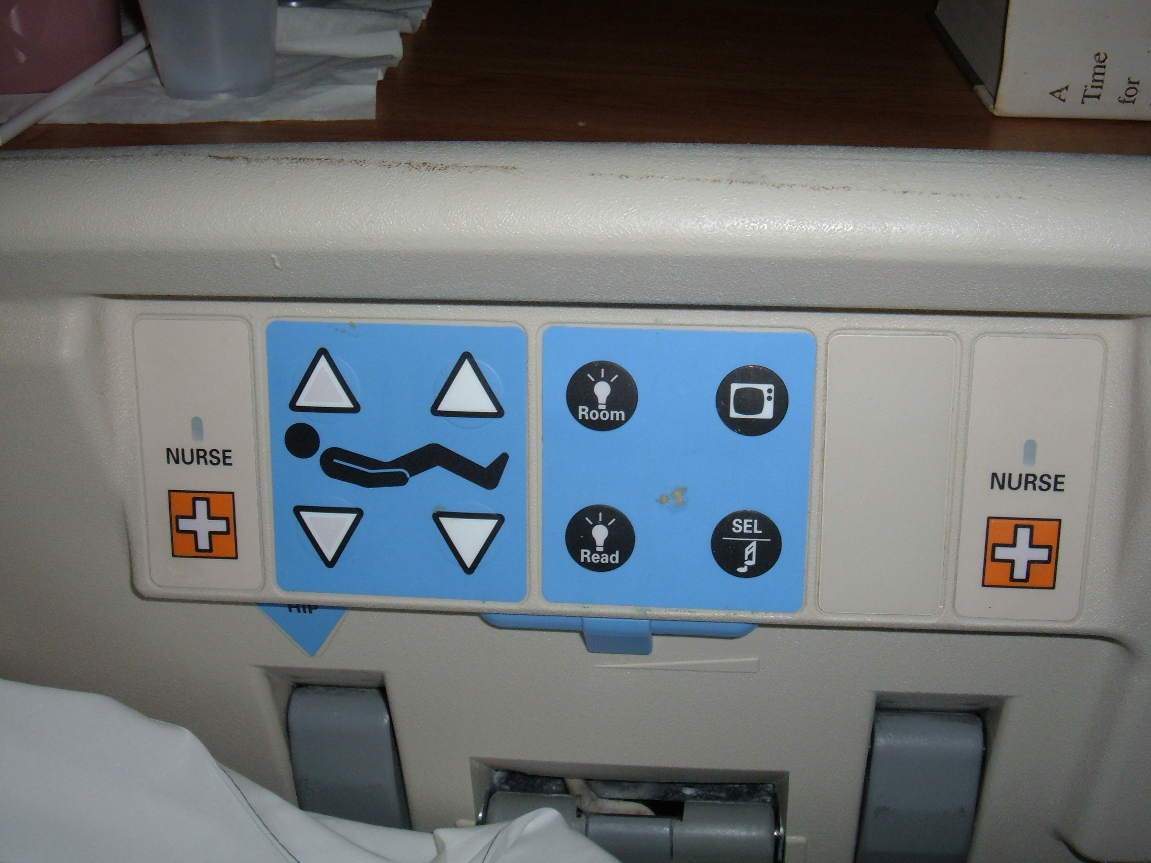 Patient control panel located on the inner side of the railing of a Hill-Rom hospital bed.